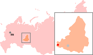 Location of Krasnoufimsk within Russia and Sverdlovsk oblast